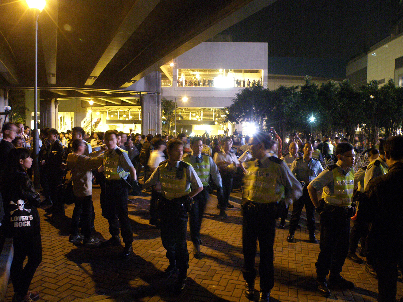 Tuen Mun protest against parallel import customers, Hong Kong.